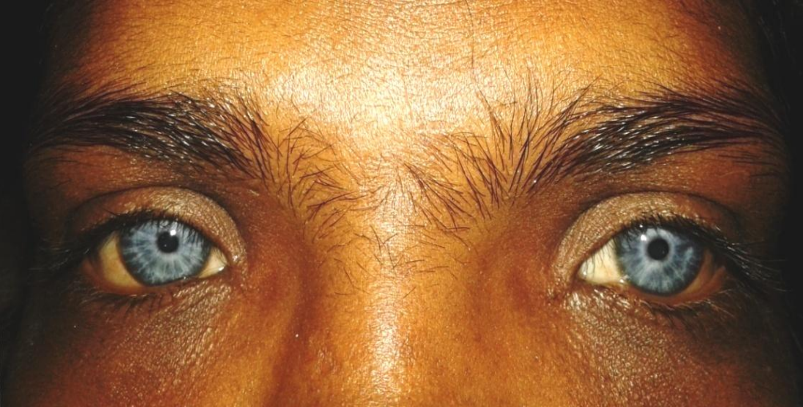 Facial appearance of a woman from Sri Lanka with Waardenburg syndrome type 1